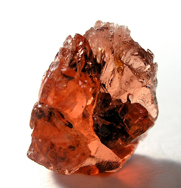 Triplite Locality: Alchuri (Alchori; Aschudi), Shigar Valley, Skardu District, Baltistan, Northern Areas, Pakistan (Locality at ) Size: thumbnail, 1.2 x 1 x 0.9 cm Triplite This was, to me, one of the most startling and exciting new finds of the show even if both the find and its audience are admittedly very small. Triplite is an EXTREMELY rare manganese/iron phosphate that has not been previously reported as being from Pakistan. Crystals are simply unavailable and crystals of beauty unprecedented. This small parcel turned up just ahead of the show, and was XRAYED at both the Smithsonian and the GIA (Gem Institute of America). As there were very few crystals in the lot, it was basically gem rough and most of it was then promptly cut into gemstones just before the show, because of the shocking color for the colored stone collectors. This etched crystal is one of just a very few pieces from the find that I am aware of, that makes for a specimen-quality example. I believe this find will remain as rare, if not more so, than the vaerynynites which come from the same region and command such a premium. In fact, if this were vaerynynites , because i suppose the name is so much more recognizable as one of those "holy grails" of rare pakistani species, it would paradoxically be worth more - but triplite in this quality is definitely the rarer of the two. 1.2 x 1 x 0.9 cm